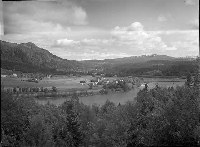 Photo of Selfors, Mo i Rana, Nordland, Norway